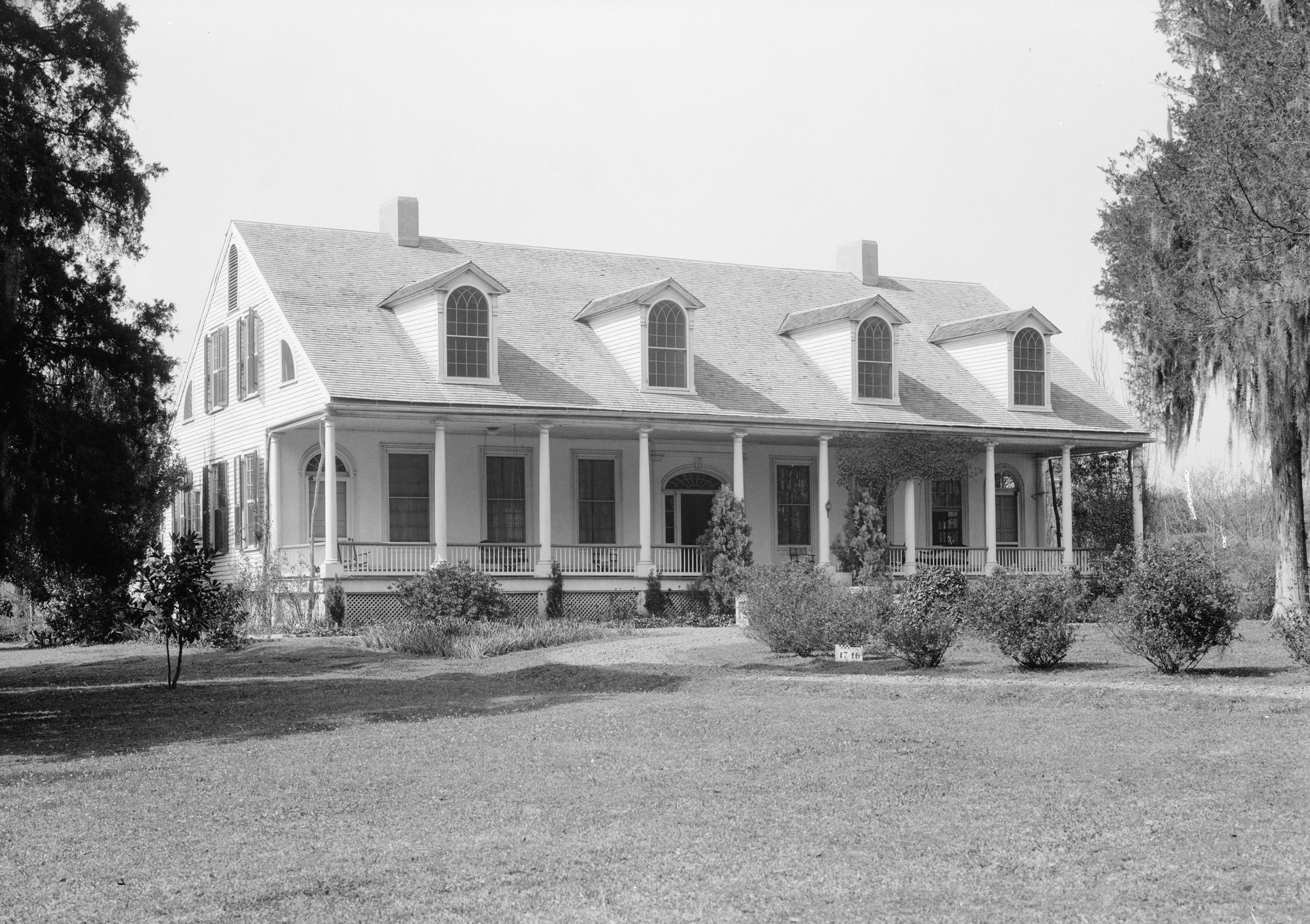 Front of Briars, located southwest of Natchez in Adams County, Mississippi, United States. Built in 1818, it is listed on the National Register of Historic Places.